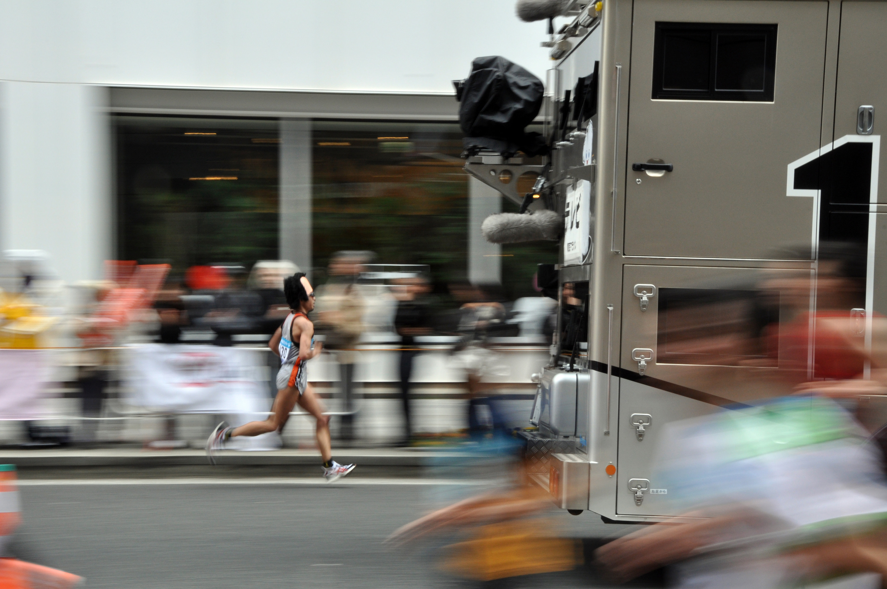 ヅラの人（東京マラソン2009） His time was 02:25:38. Rank.42 No.130 note